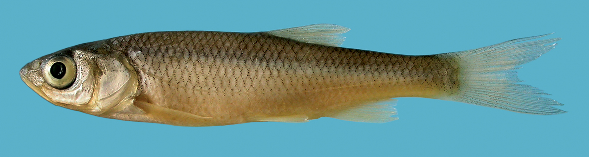 Squalius janae PZC 406, 50.0 mm SL, Croatia: Boljunscica.